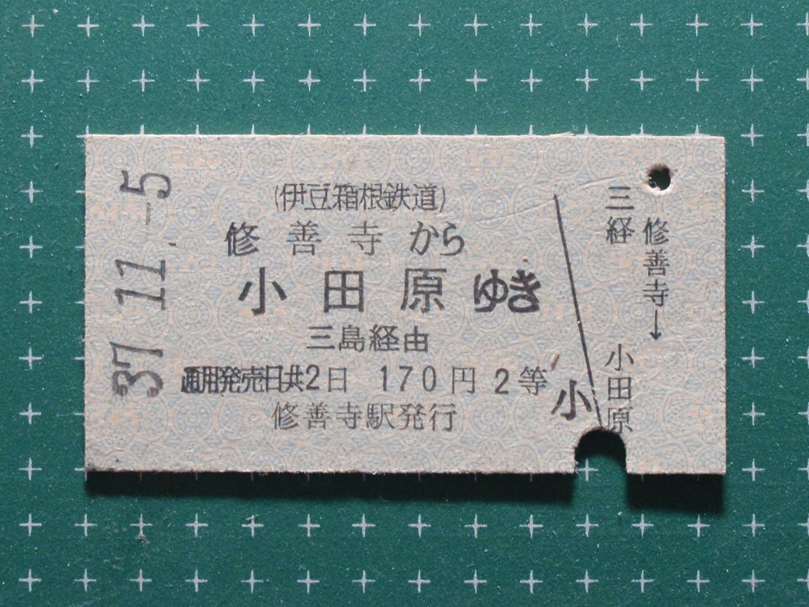 Ticket from Shuzenji to Odawara as second class.